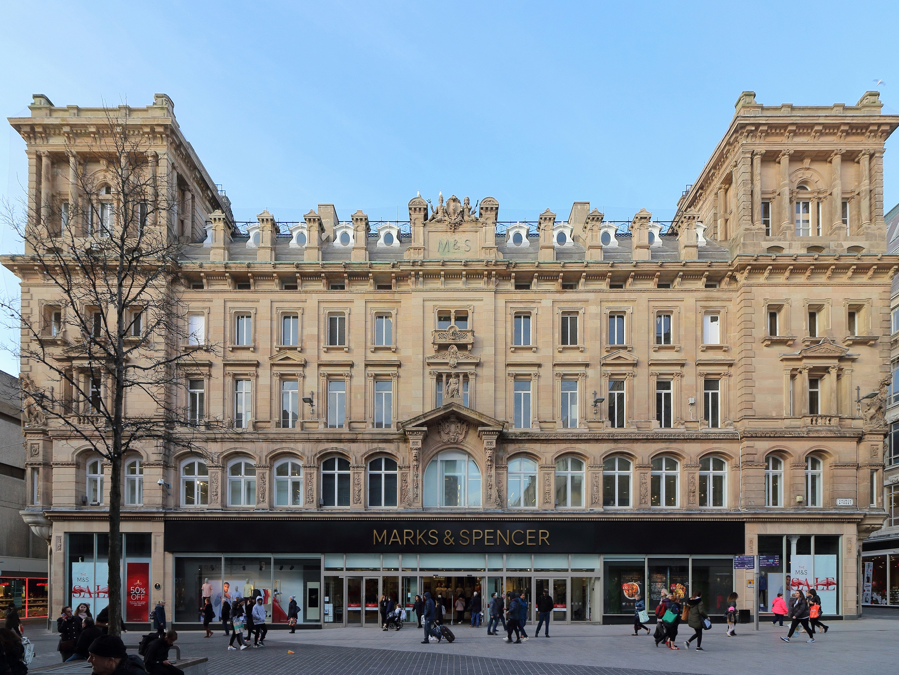 Grade II listed department store, front elevation on Church Street